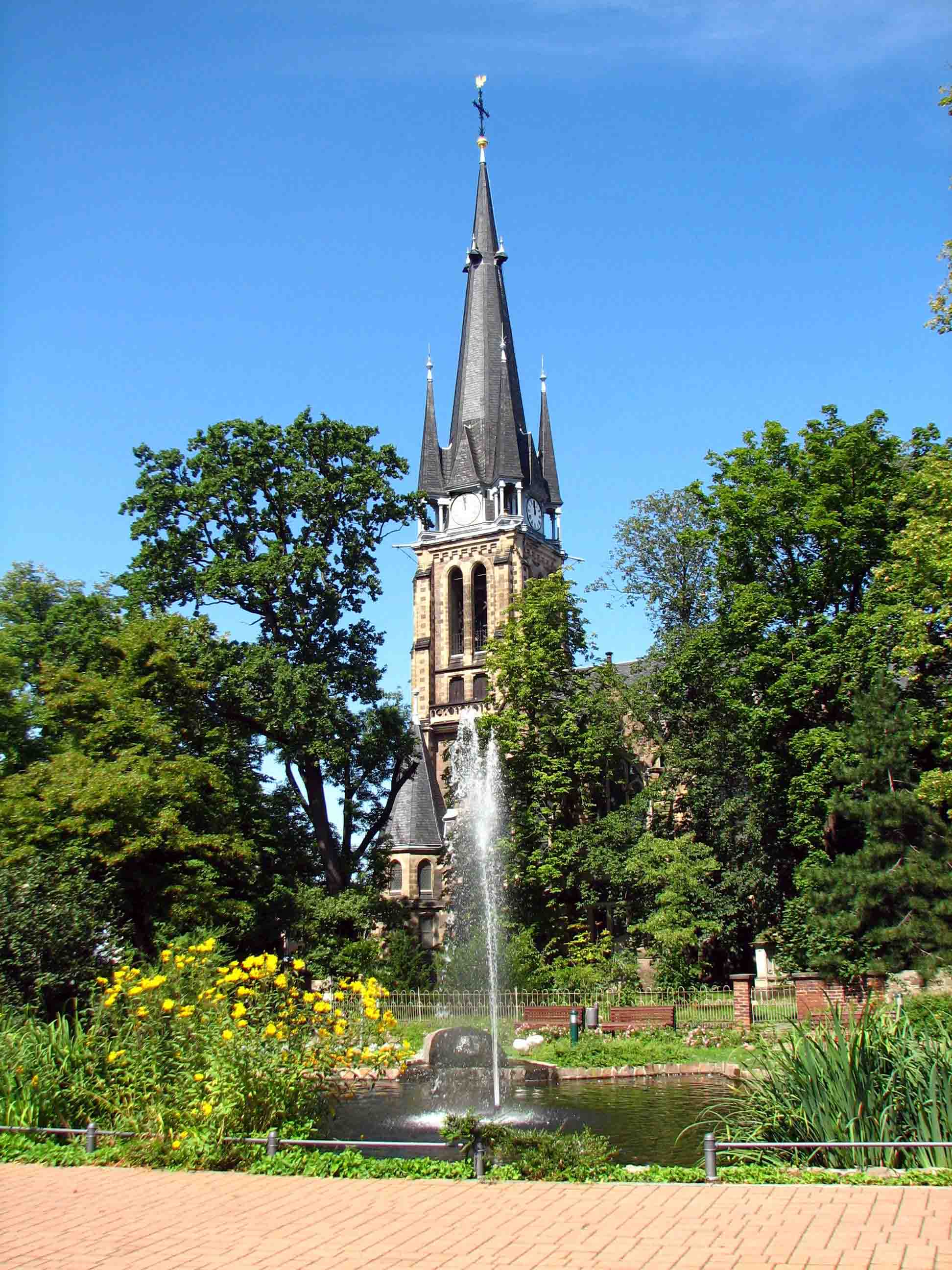 St. Martins Church, Weinböhla